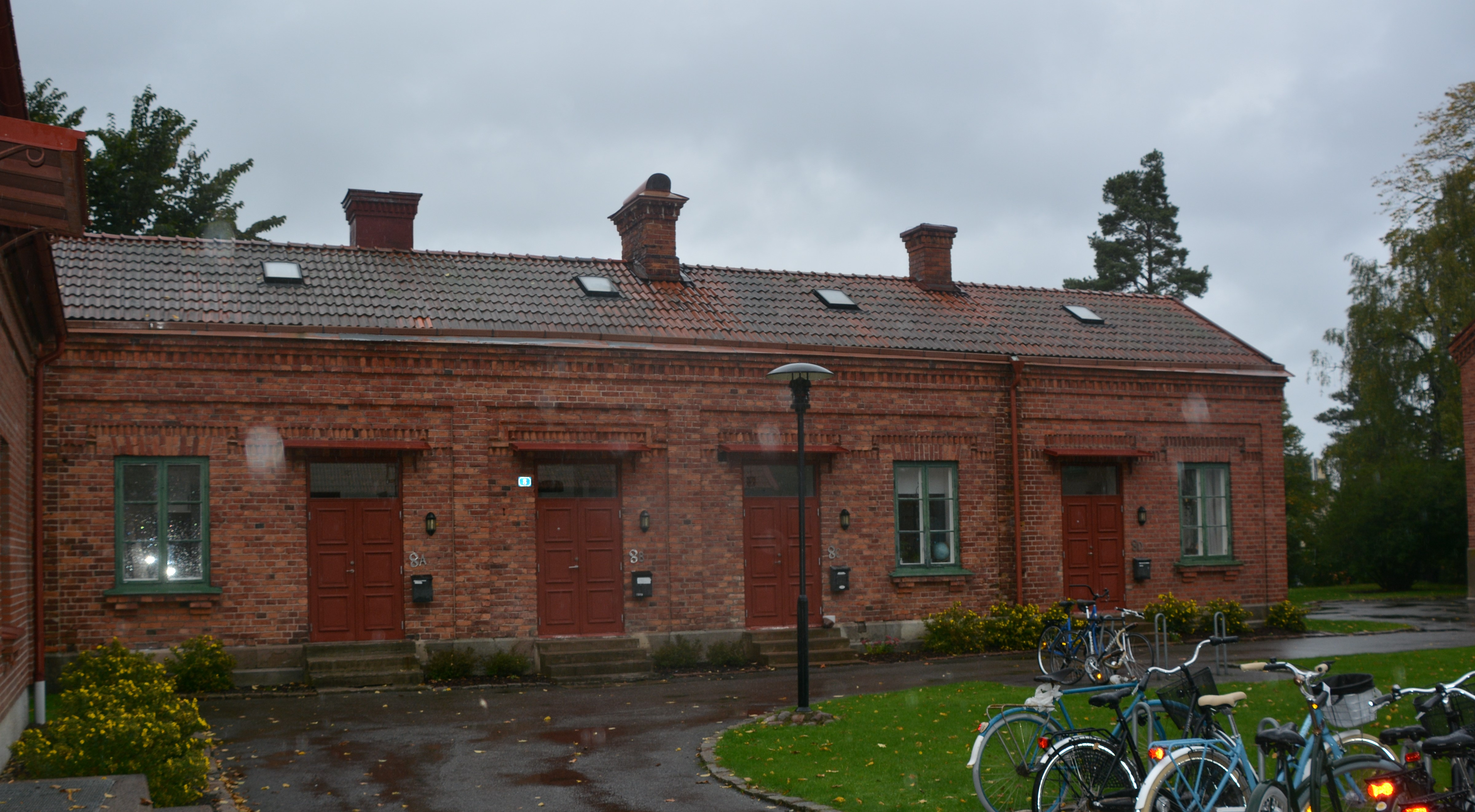 Gamla Epidemisjukhuset Jönköping